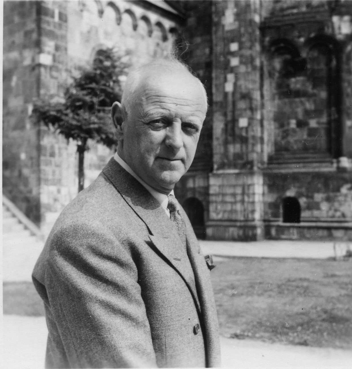 Arkitekt Eiler Graebe 1952 in Lund (Lund Domkyrkor i baksiden)